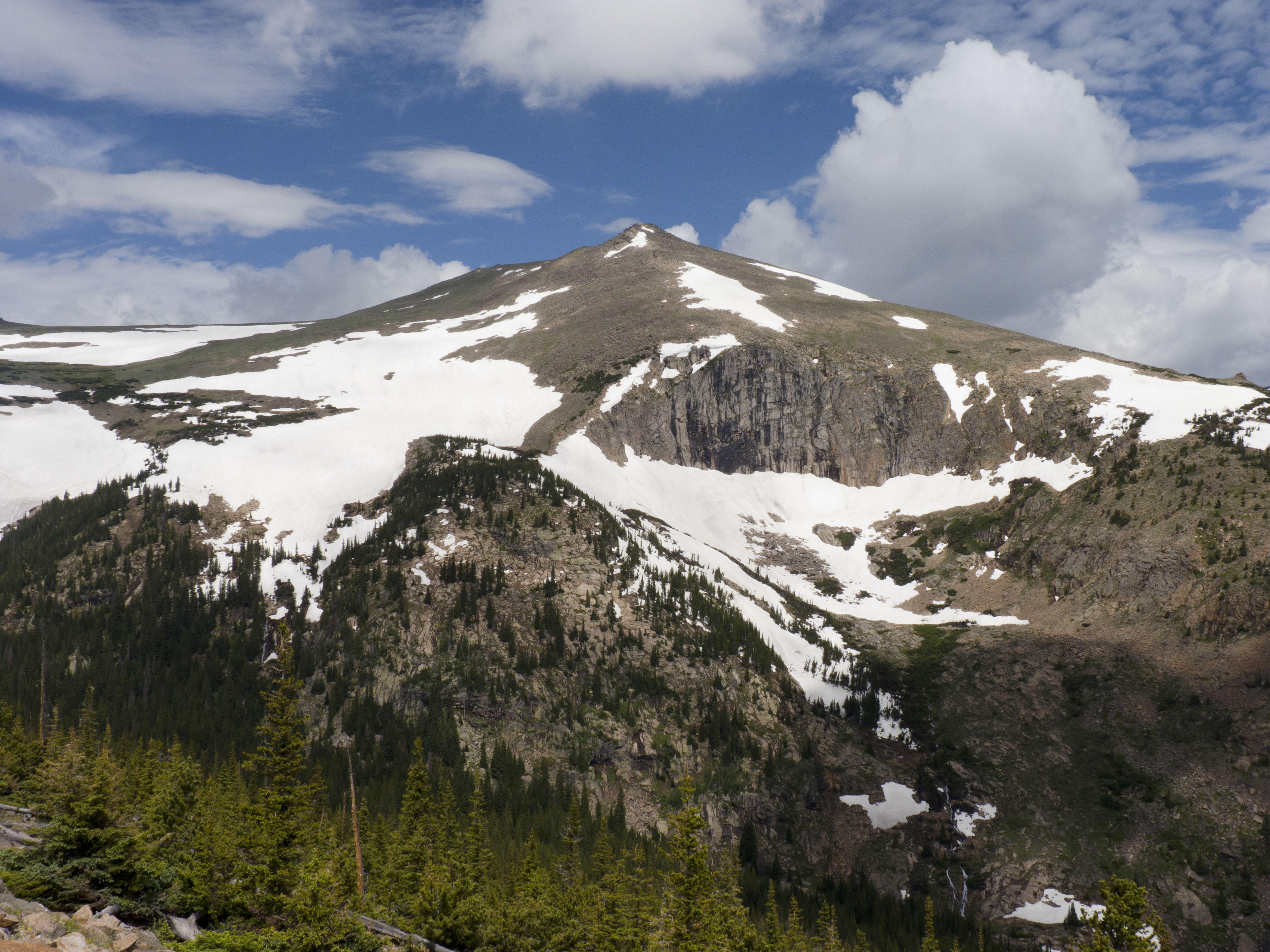 Sundance Mountain from the east in Larimer County, Colorado at Rocky Mountain National Park.